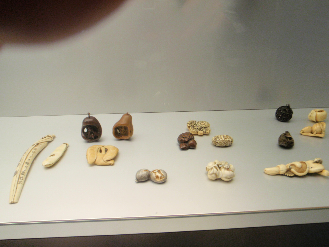 from the netsuke-collection, Kunstpalast Düsseldorf